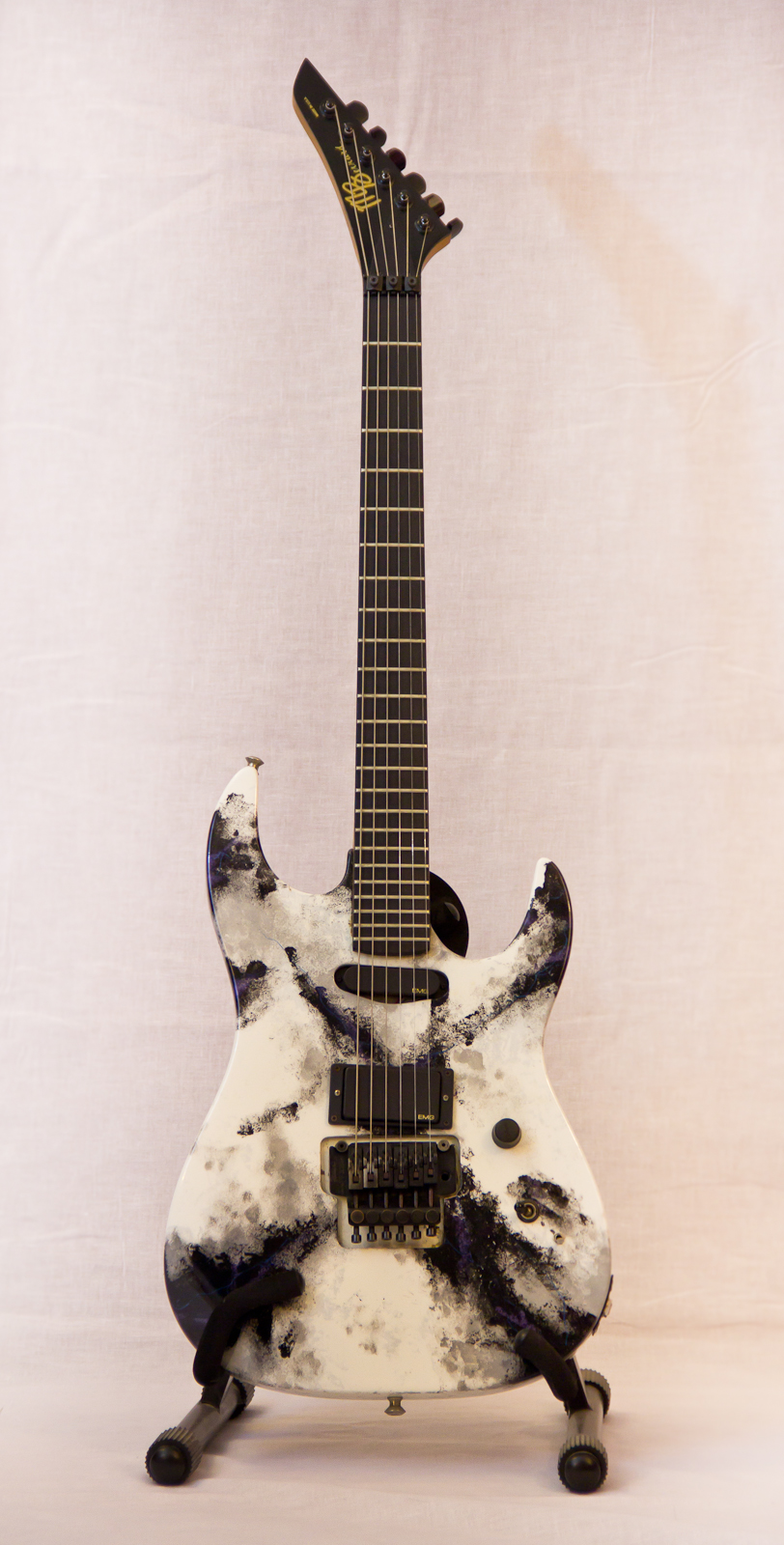 1992 Mason Bernard Electric Guitar, body #352